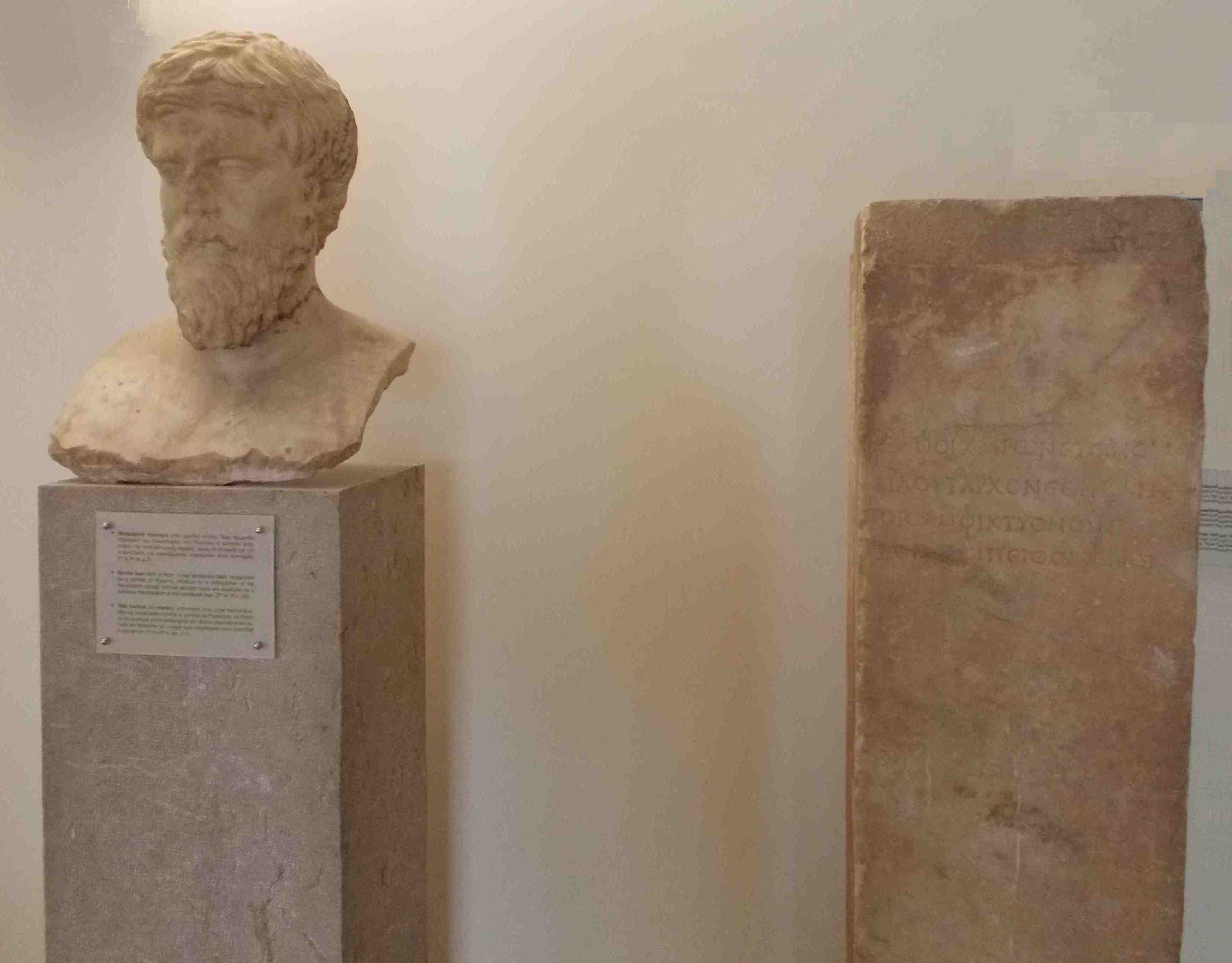 Left: Bust of Plutarch or of another Neoplatonic philosopher. Right: Headless herm of a votive with the bust of Plutarch, set up by the people of Delphi around 125 AD. The inscription on the herm reads: ΔΕΛΦΟΙ ΧΑΙΡΩΝΕΥΣΙ ΝΟΜΟΥ ΠΛΟΥΤΑΡΧΟΝ ΕΘΗΚΑΝ ΤΟΙΣ ΑΜΦΙΚΤΙΟΝΩΝ ΔΕΛΦΟΙΣ ΠΕΙΘΟΜΕΝΟΙ The engraved inscription on the marble pillar reveals that this votive with the bust of Plutarch was set up by the people of Delphi and the citizens of Chearonea in honour of the great author and priest of Apollo. Both items were found near the southeast corner of the temple of Apollo at Delphi. Delphi Archaeological Museum LocationDelfi Municipality , GreeceCoordinates38° 28′ 49.06″ N, 22° 29′ 59.42″ E Established1903 Web Authority control : Q636928 VIAF: 145993304 ULAN: 500306710 LCCN: n85090983 GND: 5245755-2 SUDOC: 031077560 WorldCat institution QS:P195,Q636928